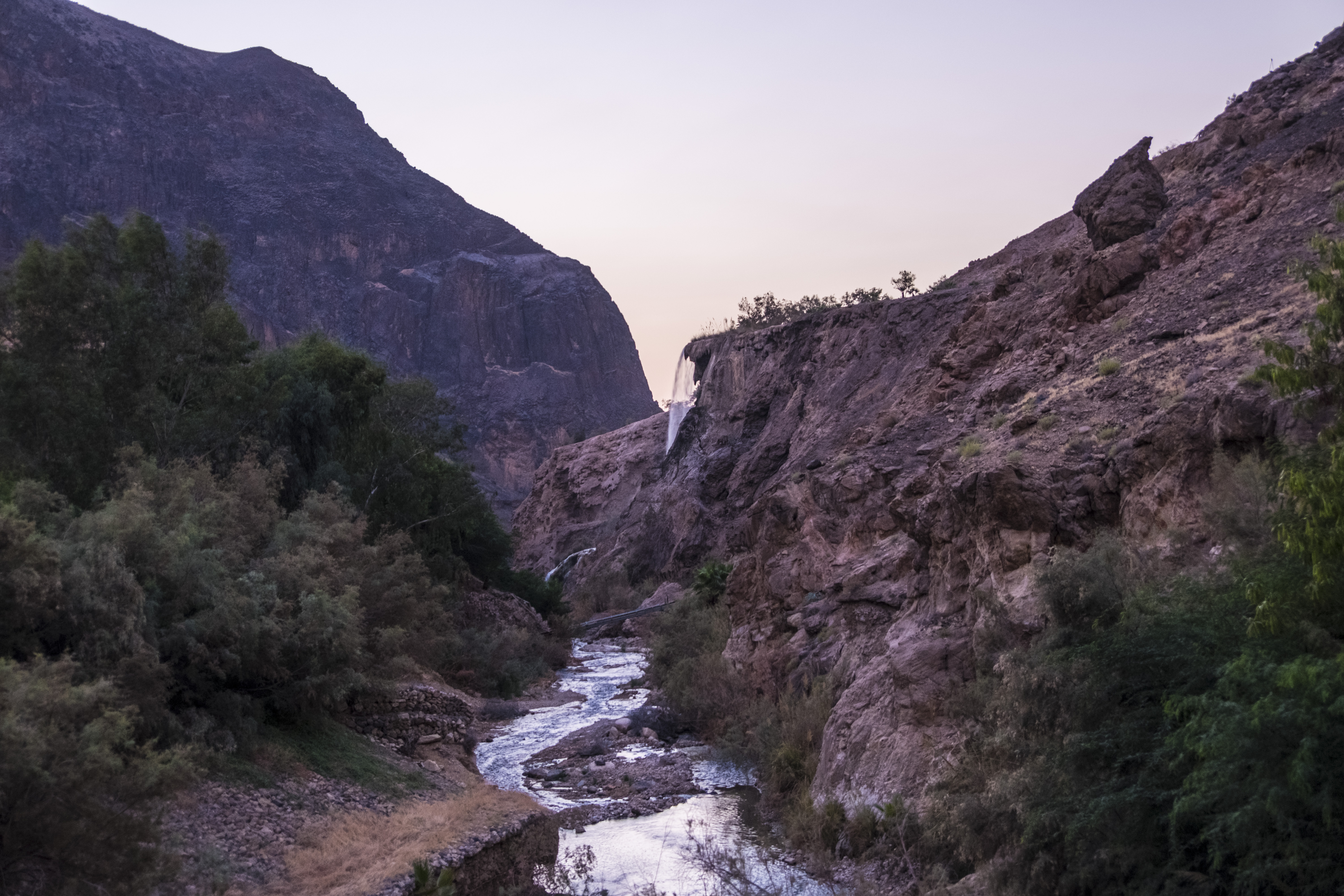 Ma'in Hot Springs